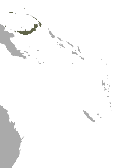 Andersen's Bare-backed Fruit Bat (Dobsonia anderseni) range